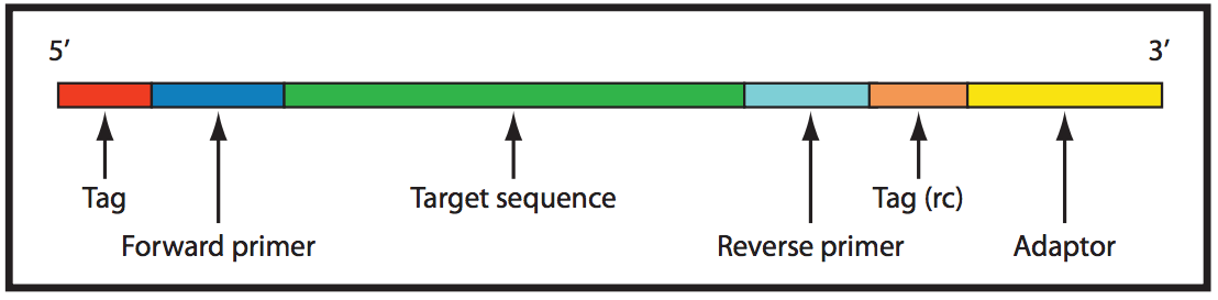 This picture is an amplicon sequencing template, where the amplicon is shown in green. From original article: "Amplicon sequence structure. Illustration of raw amplicon sequences with tags, primers and adaptors colored in red, blue and yellow respectively. The target sequence amplified by PCR is shown in green color."